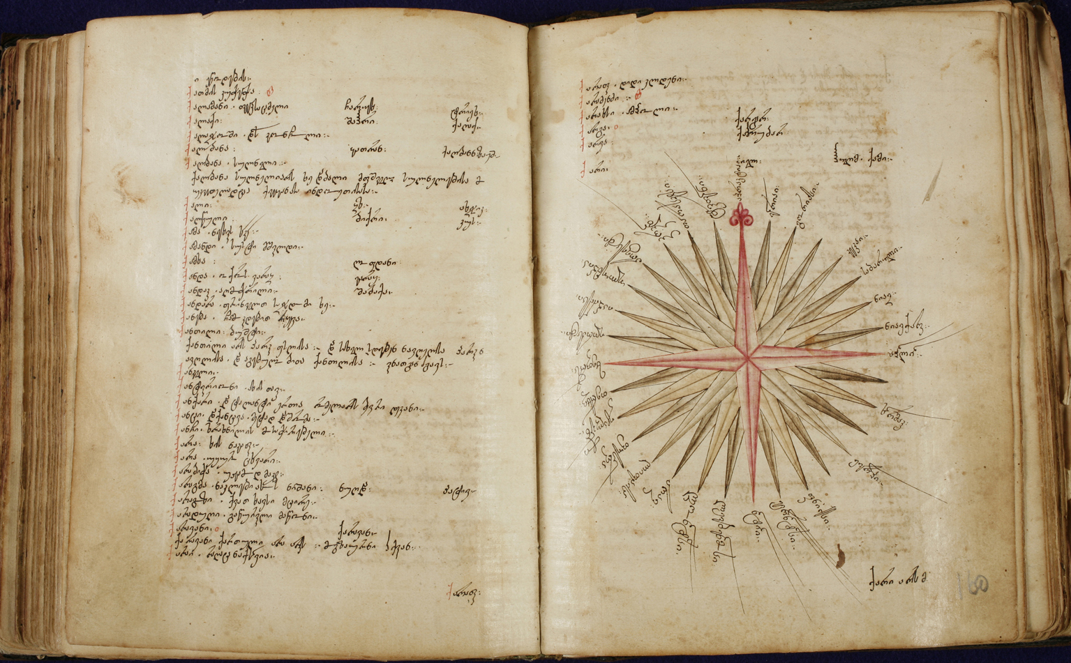 სიტყვის კონა